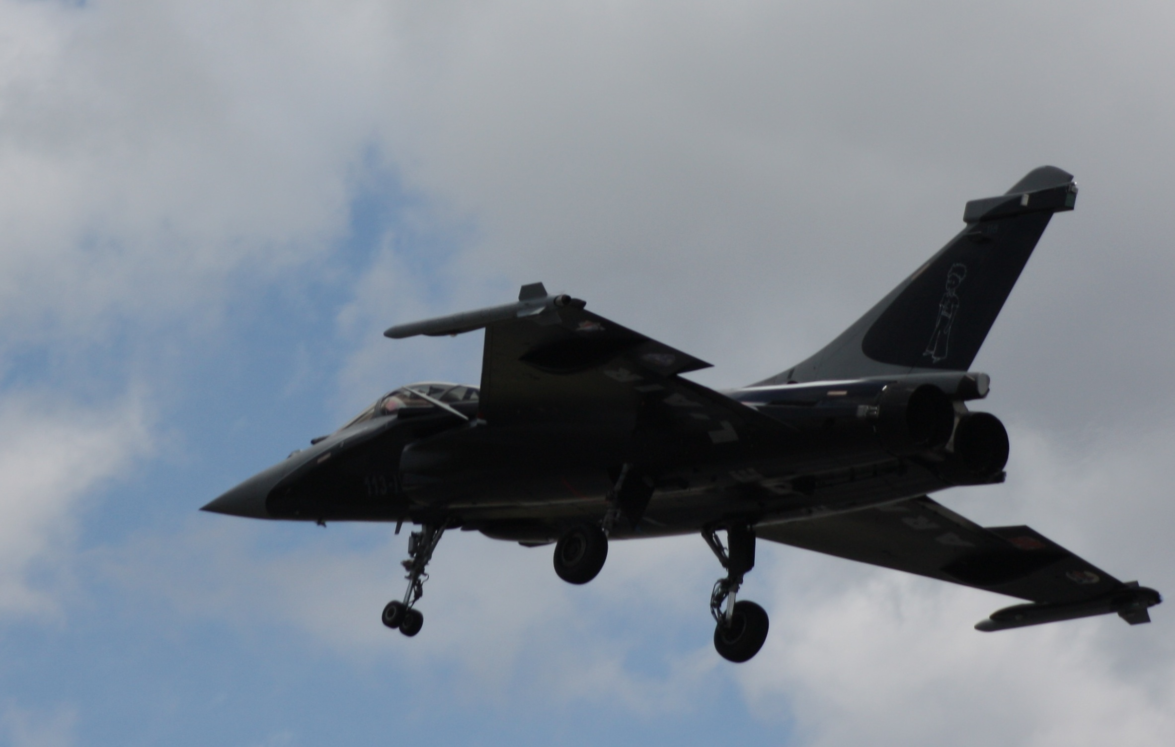 Dassault Rafale at the Paris Air Show 2011.